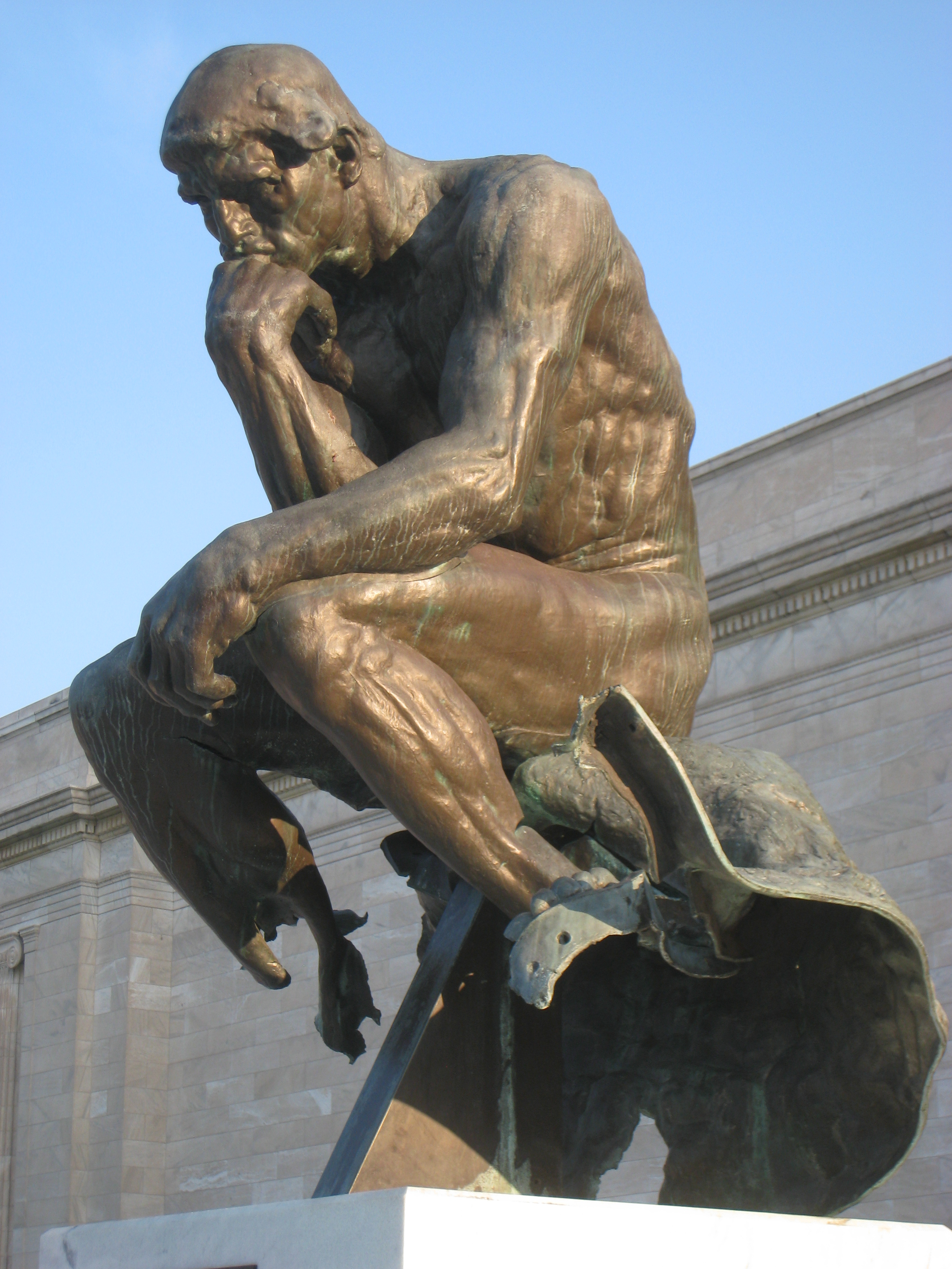 Vandalized cast of Rodin's Thinker, Cleveland Museum of Art, Cleveland, Ohio, USA.